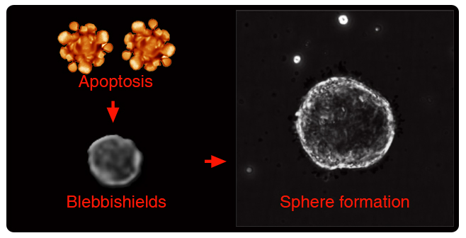 Human RT4 bladder cancer cells (RT4P) undergo apoptosis and subsequent blebbishield formation (Left panel: Schematic) by bleb-bleb fusion. Blebbishields in turn fuse to each other to form cancer stem cell spheres (Right panel:Photograph).